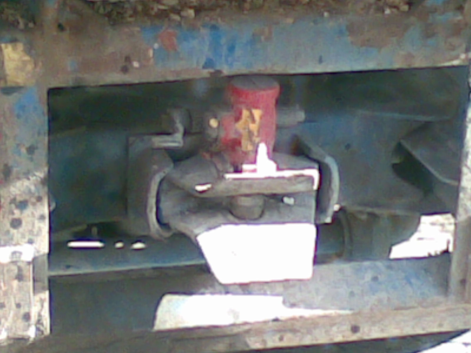 VBG coupling device on a truck (Ringfeder type coupling)